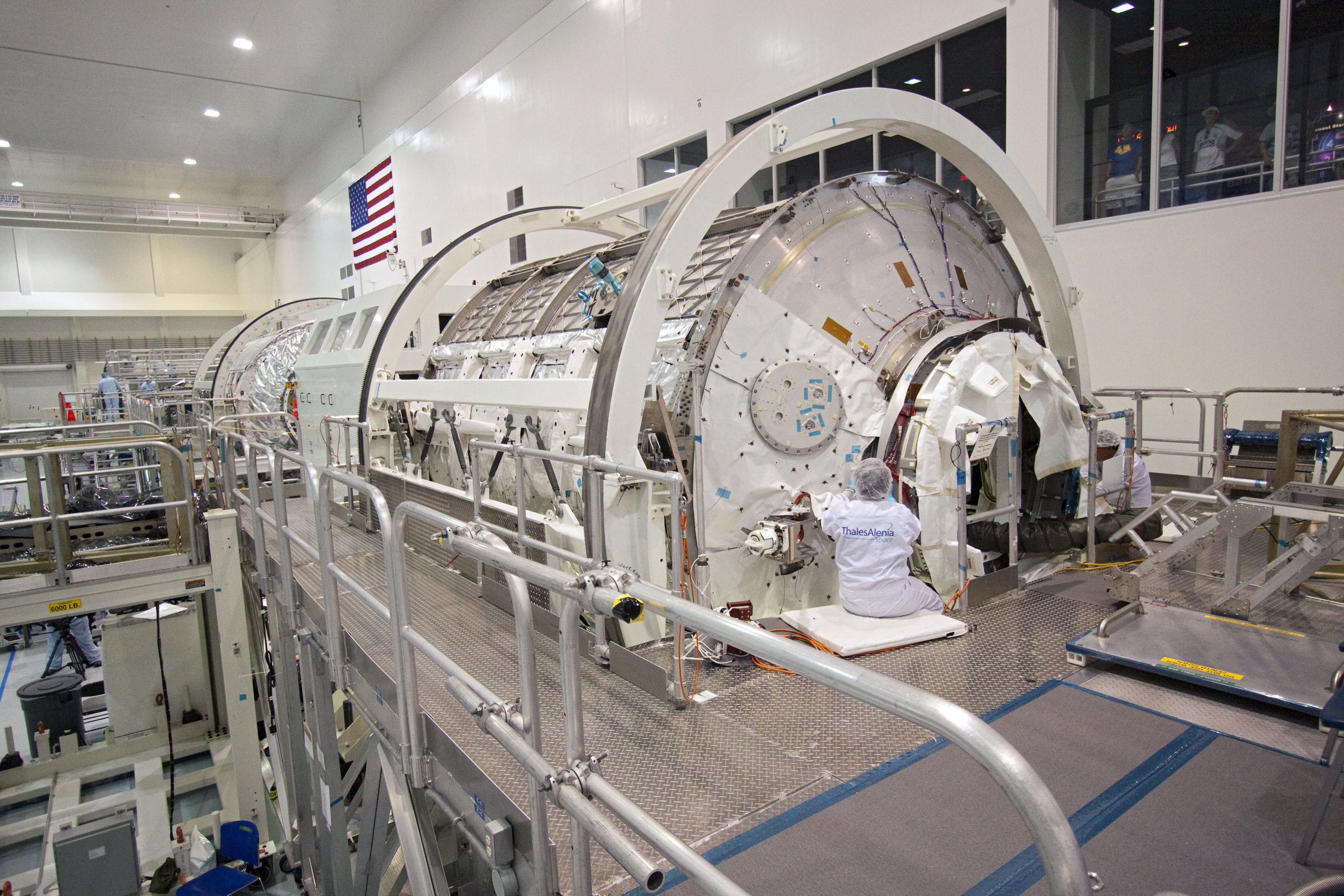 CAPE CANAVERAL, Fla. -- In the Space Station Processing Facility at NASA's Kennedy Space Center in Florida, a technician works on the Permanent Multipurpose Module, or PMM, headed to the International Space Station. The PMM will be used to carry supplies and critical spare parts to the station. The module will be left behind so it can be used for microgravity experiments in fluid physics, materials science, biology and biotechnology. Space shuttle Discovery will deliver its payload to the station on the STS-133 mission. Launch is targeted for Nov. 1 at 4:33 p.m. EDT.